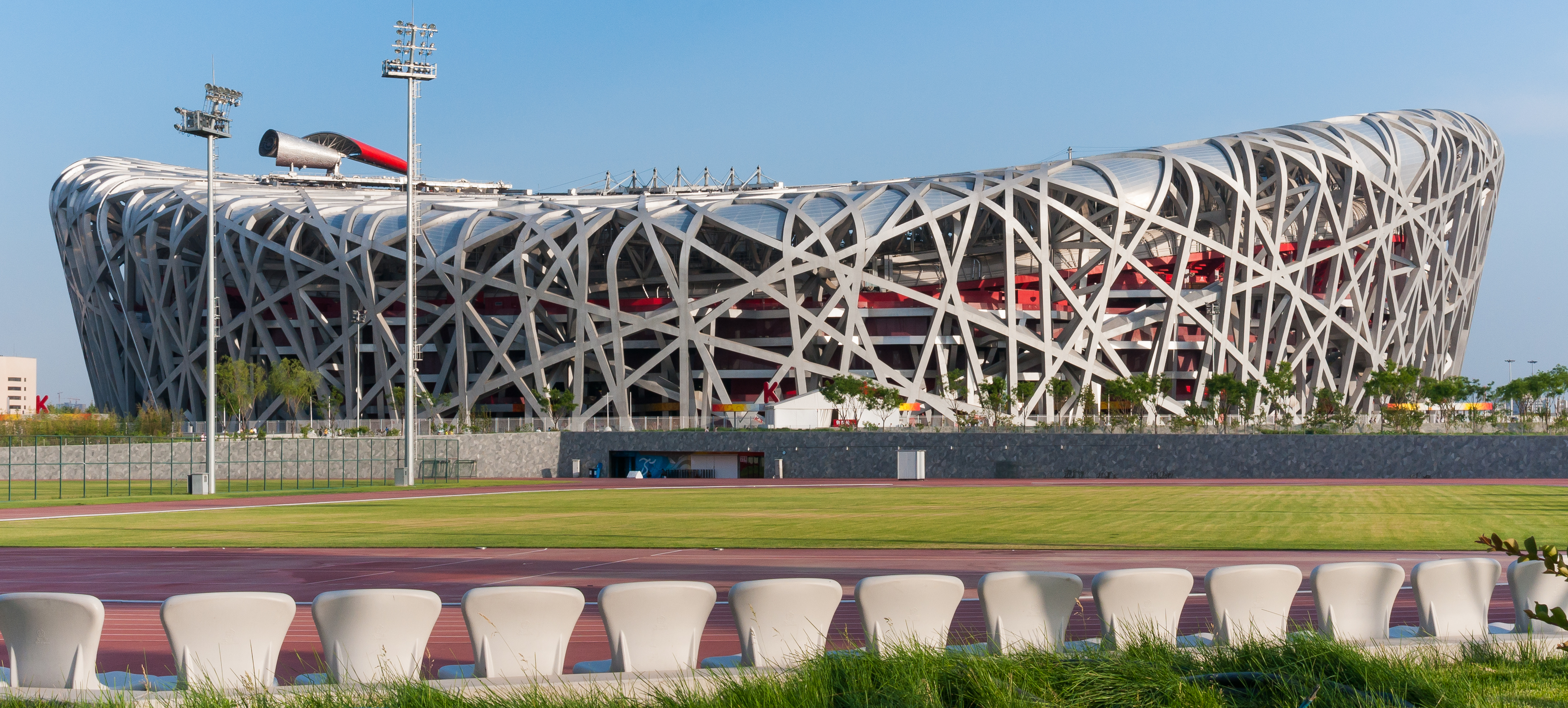 Beijing, China: National Stadium, also known als "birds nest"